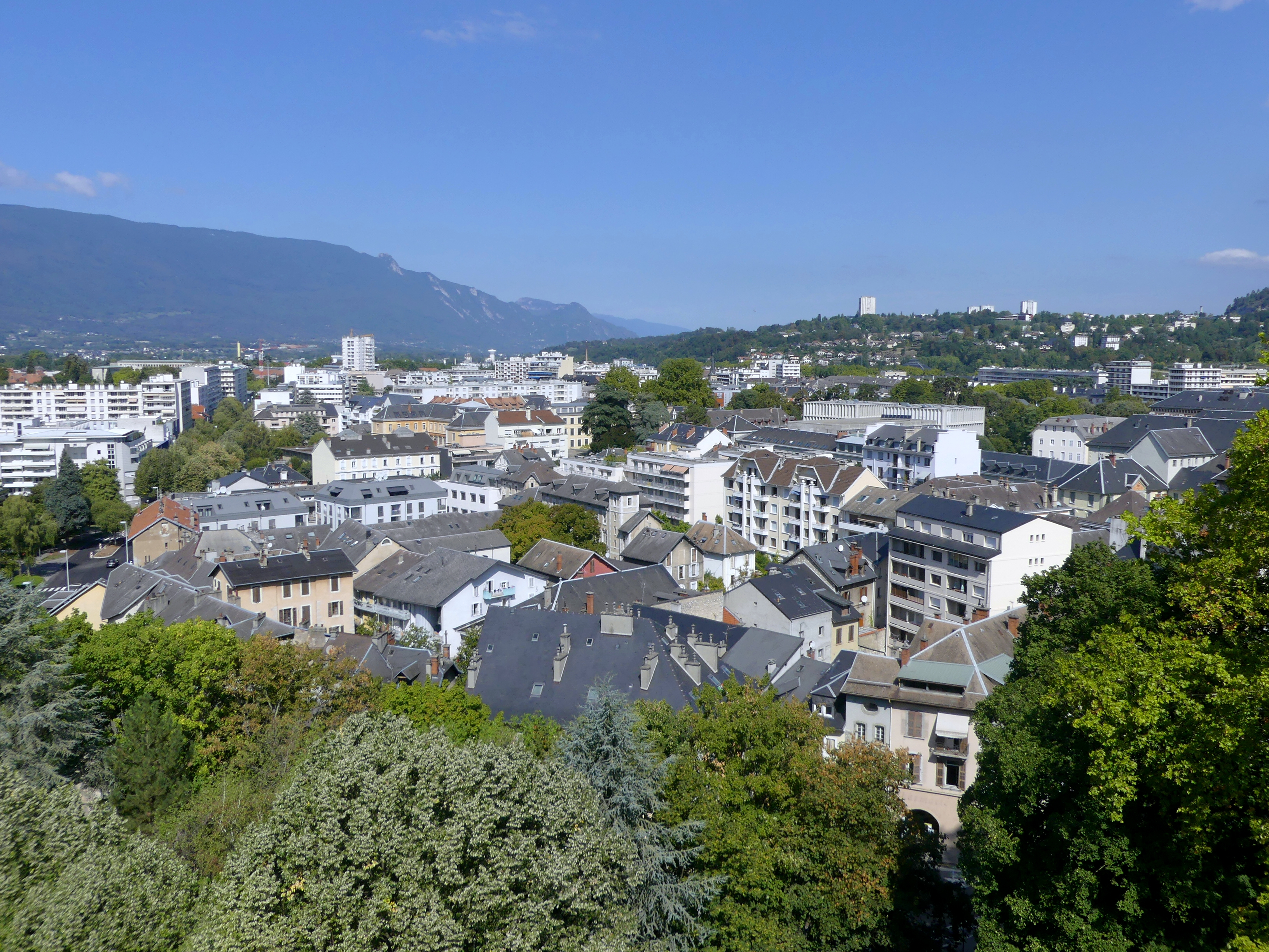 Sight on the roofs of the northern part of Chambéry, from the top of the half-circled tower of the city's castle, in Savoie, France.